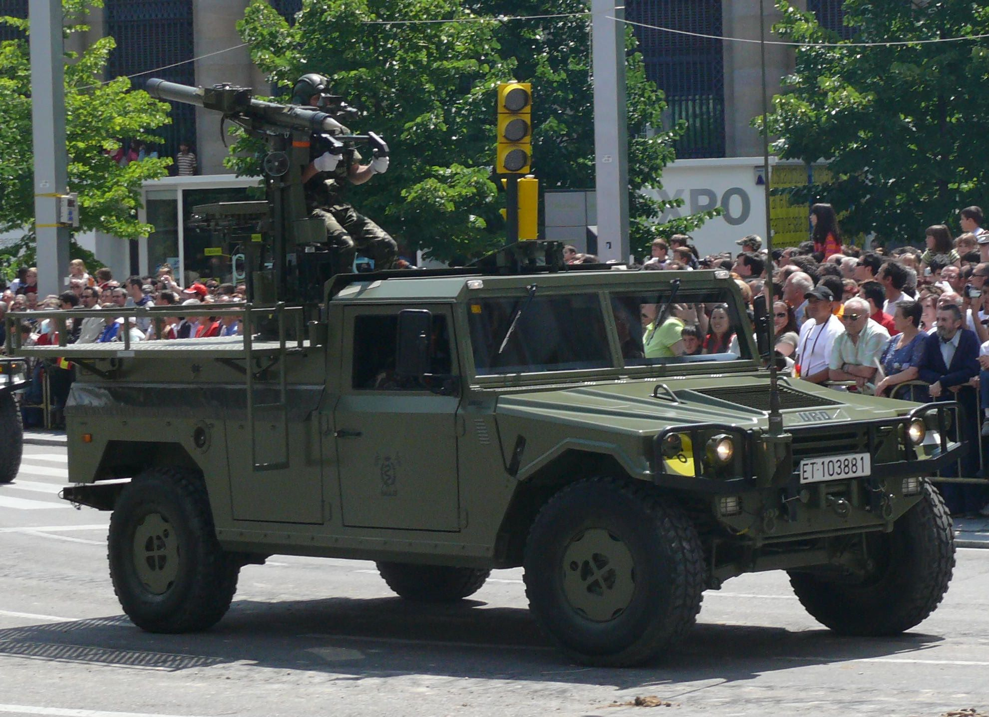 URO VAMTAC equipped with a Mistral missile.